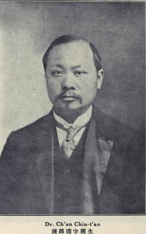 Chen Jintao (1871 - 1939)